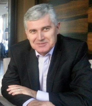 President of the Croatian Democratic Union of Bosnia and Herzegovina Dragan Čović.